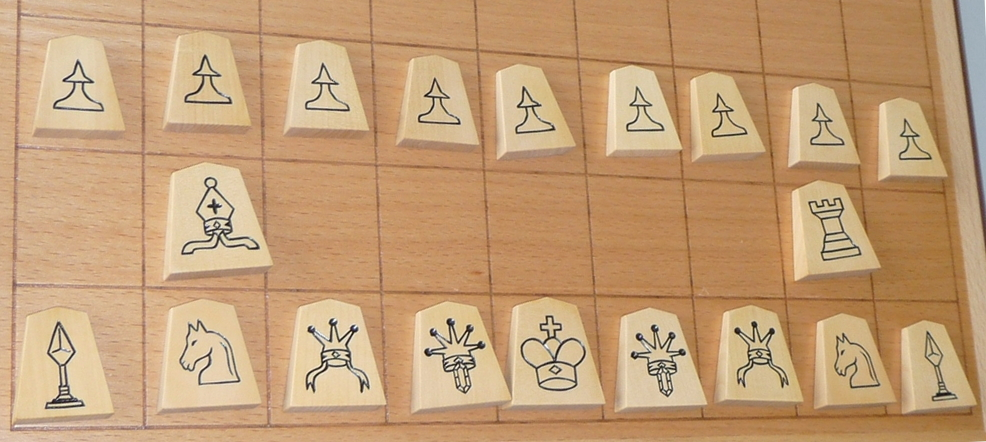 rotated & cropped version of